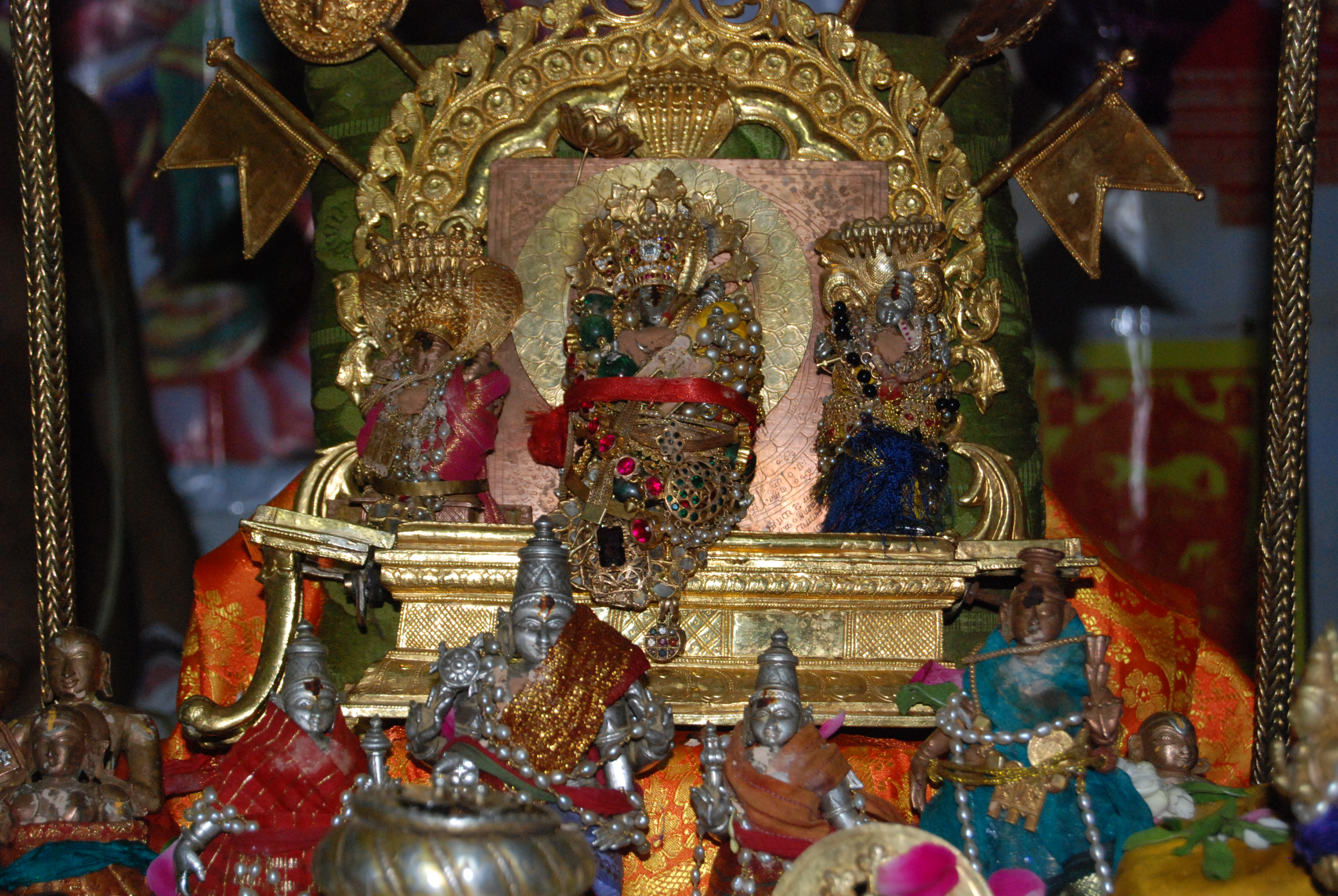 Seen in center is Lakshmi Hayagreeva Vigraha at Parakala Mutt, Mysore, this vigraha is believed to be given to Sri Vedanta Desika Swamin by Goddess Saraswti